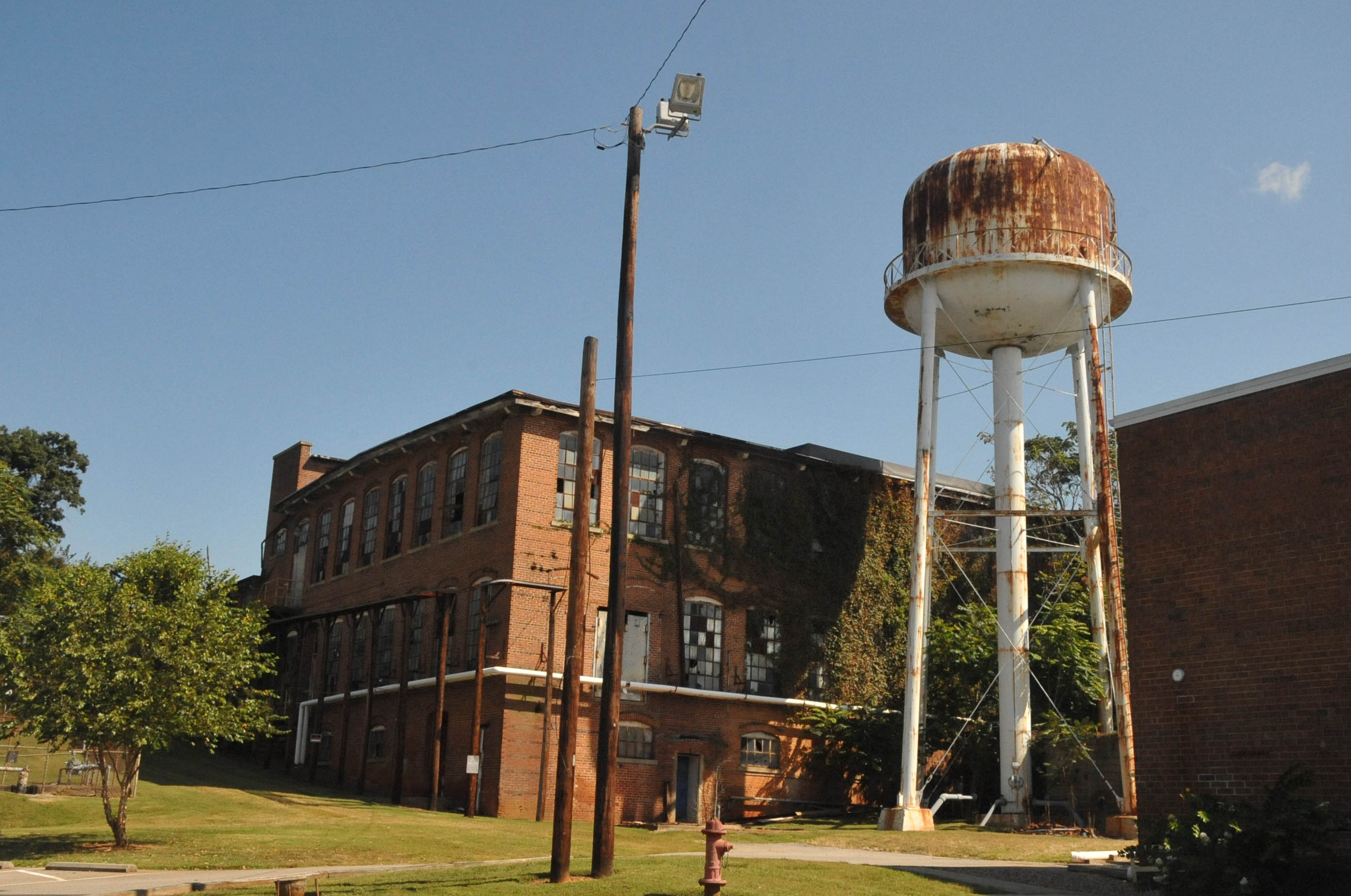 BUILT AROUND 1900; ONCE THE LEADING TEXTILE MILL IN THE HILLSBOROUGH AREA MANUFACTURING CHEVIOTS AND GINGHAM. IT NOW STANDS EMPTY